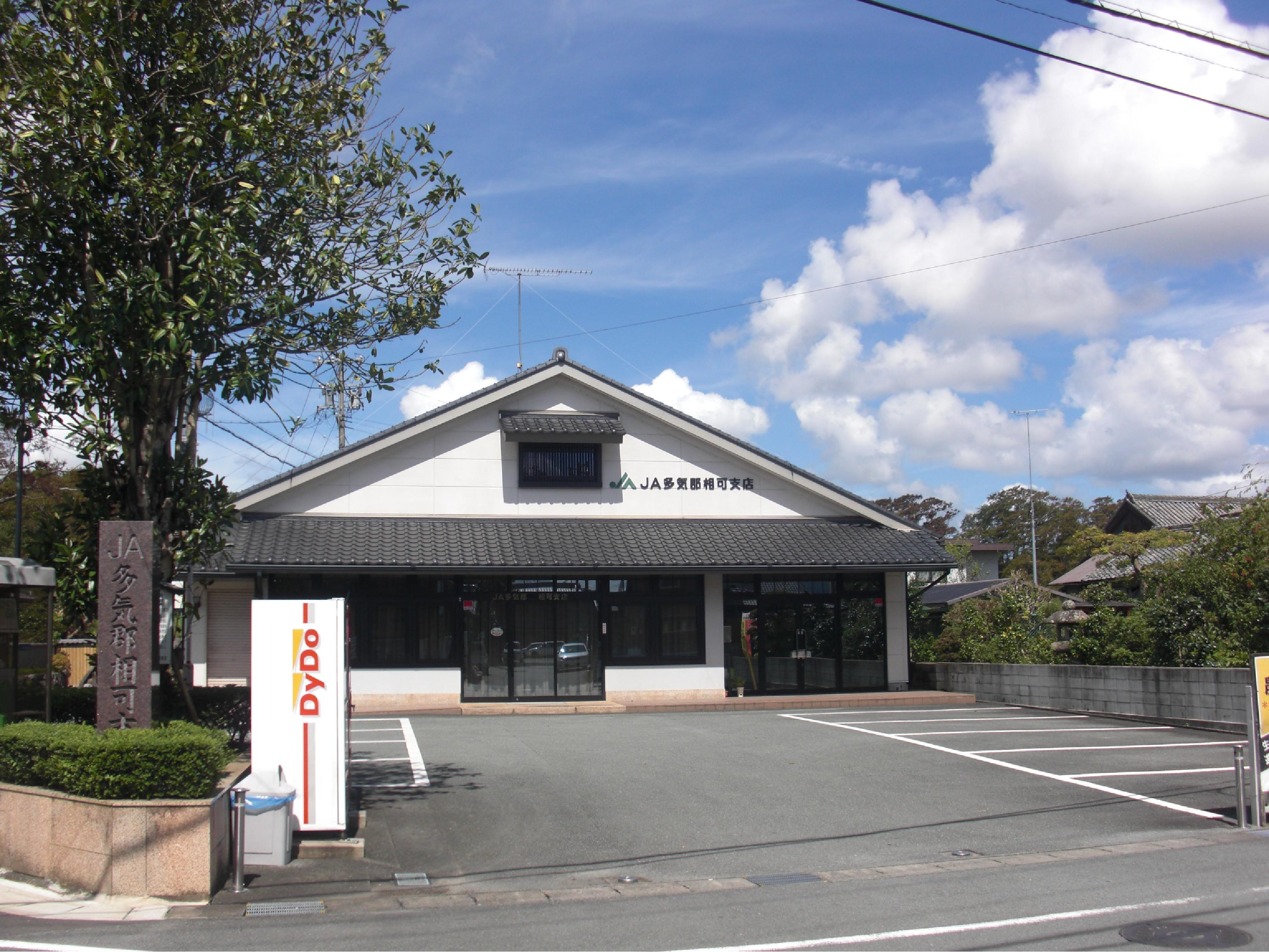 This is a branch of JA Takigun.